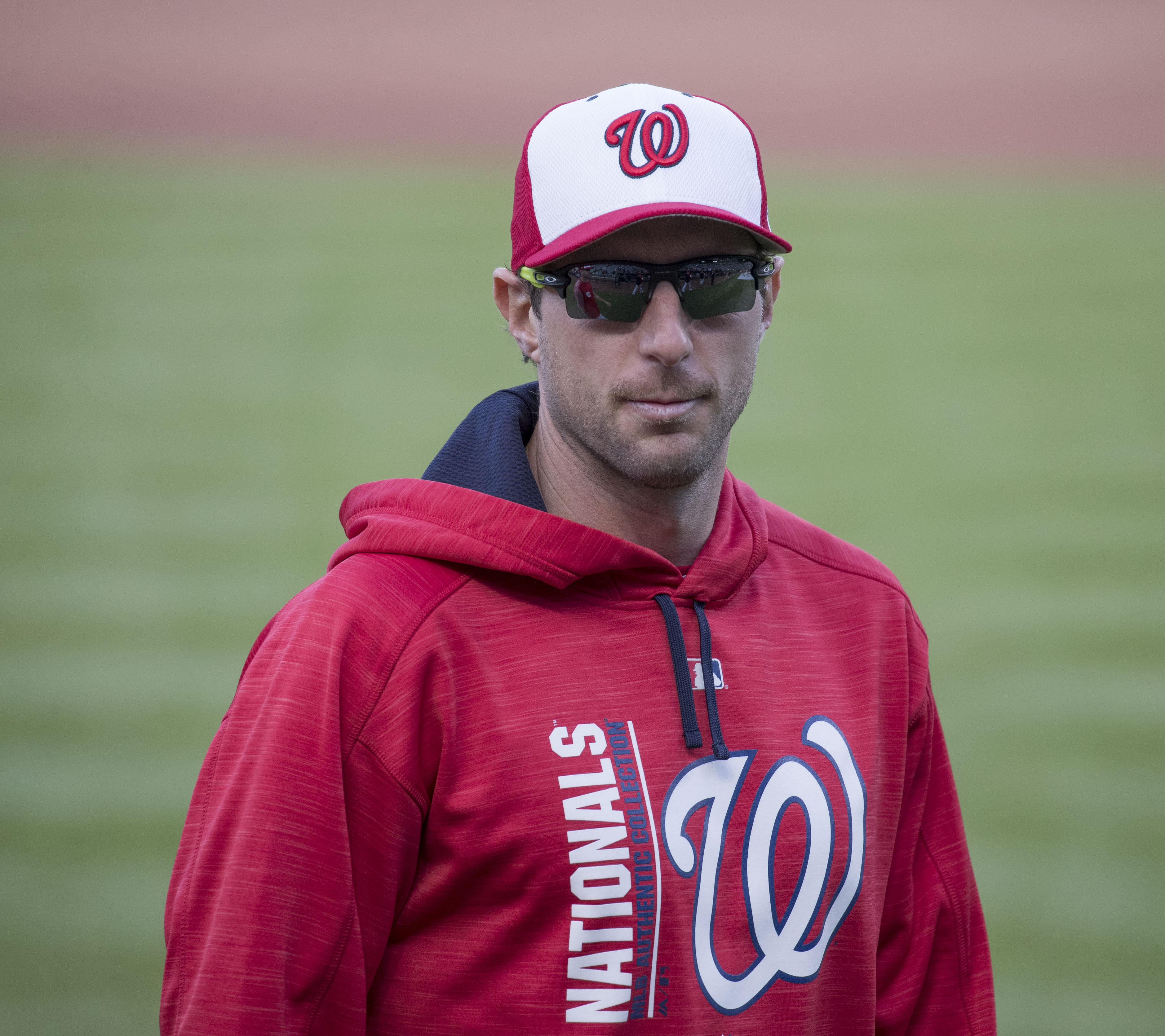 Max Scherzer of the Washington Nationals during batting practice before a game against the Baltimore Orioles at Oriole Park at Camden Yards on May 8, 2017 in Baltimore, Maryland.